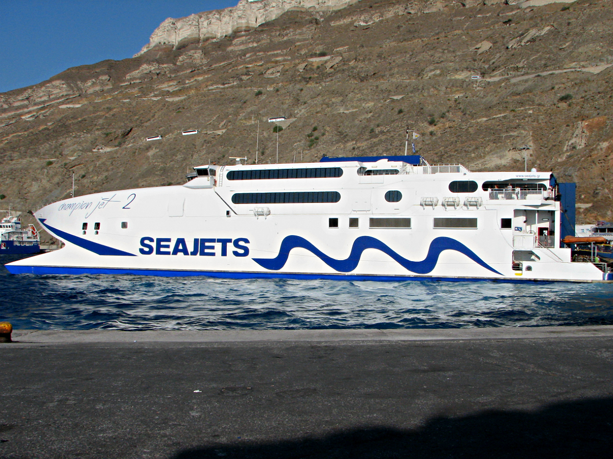 HSC Champion Jet 2 at the port of Athinios in Santorini.